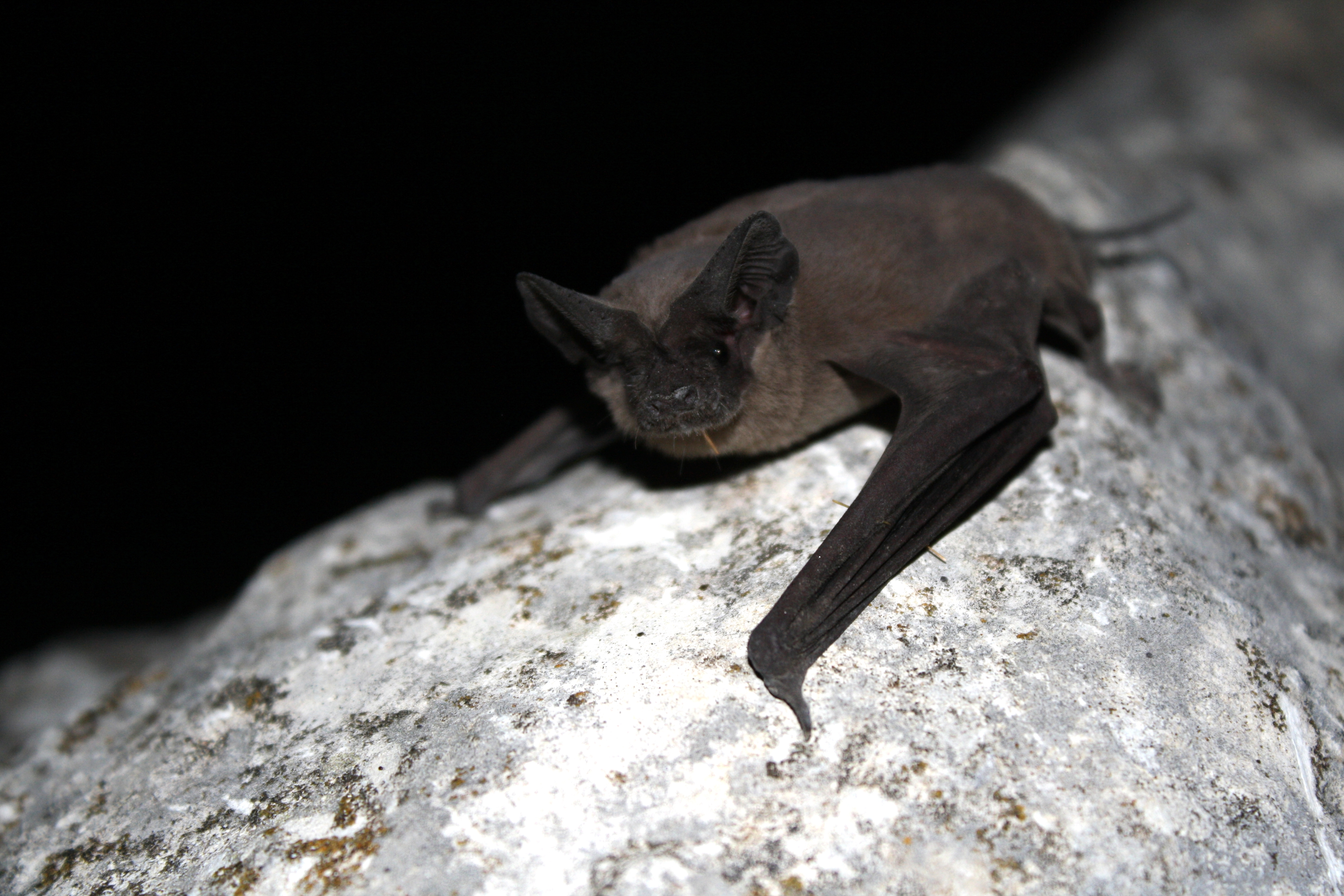 Mexican free-tailed bat (Tadaria braziliensis) photo credit: USFWS/Ann Froschauer